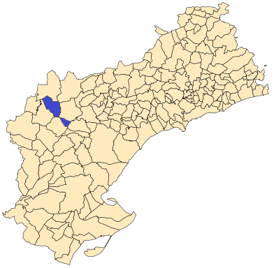 La Fatarella